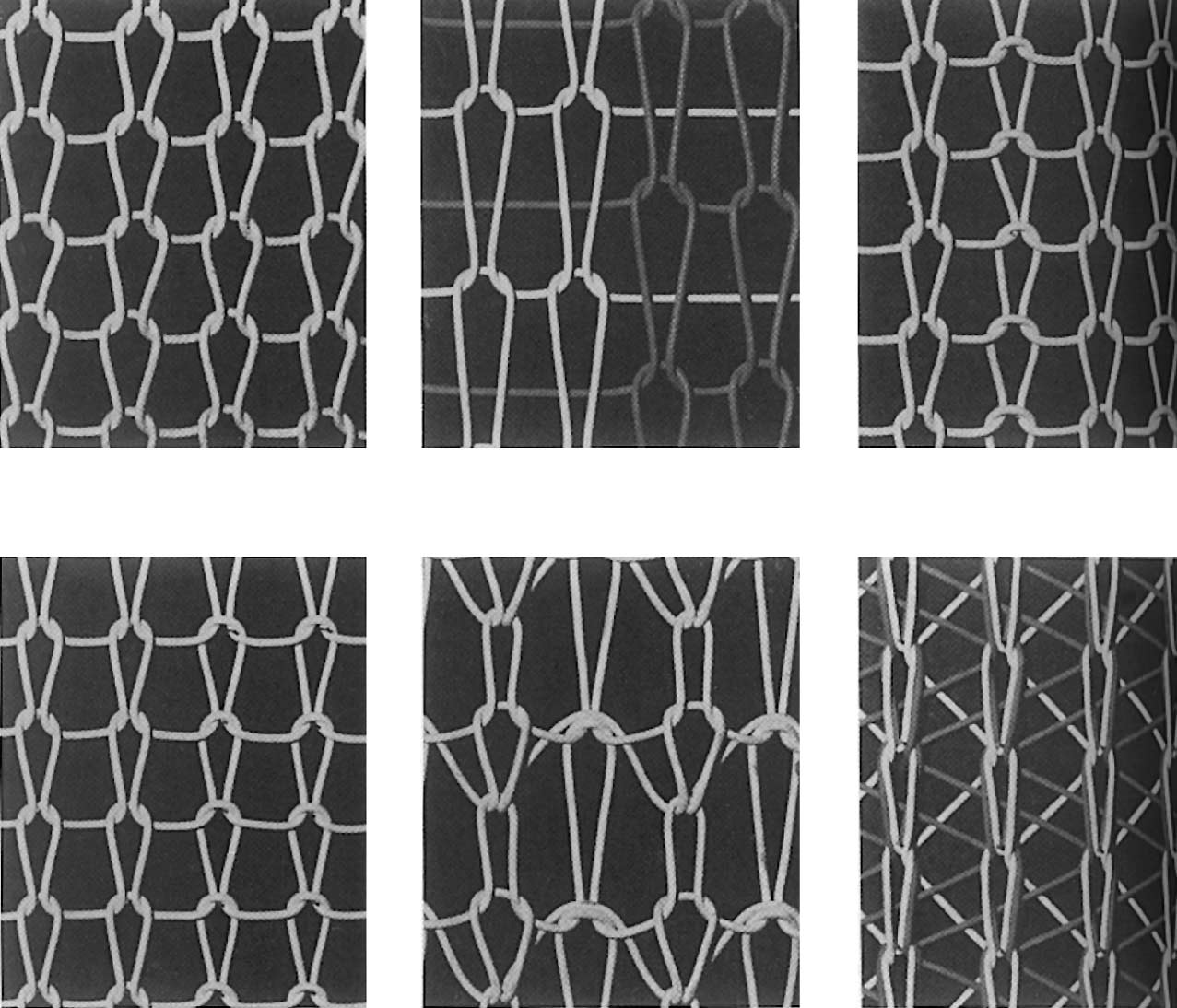 حسام هطلاني